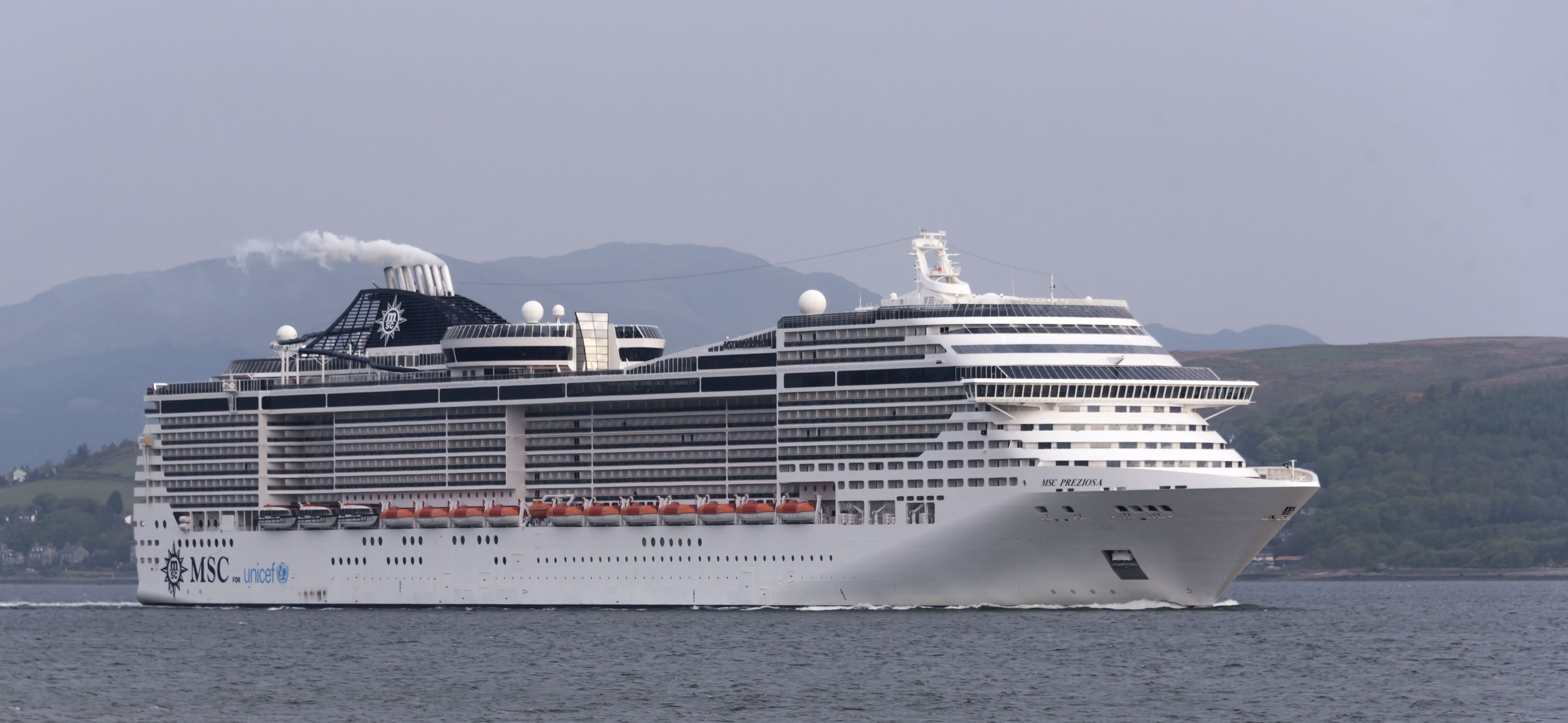 MSC PREZIOSA in Greenock Ocean Terminal on May 12, 2017